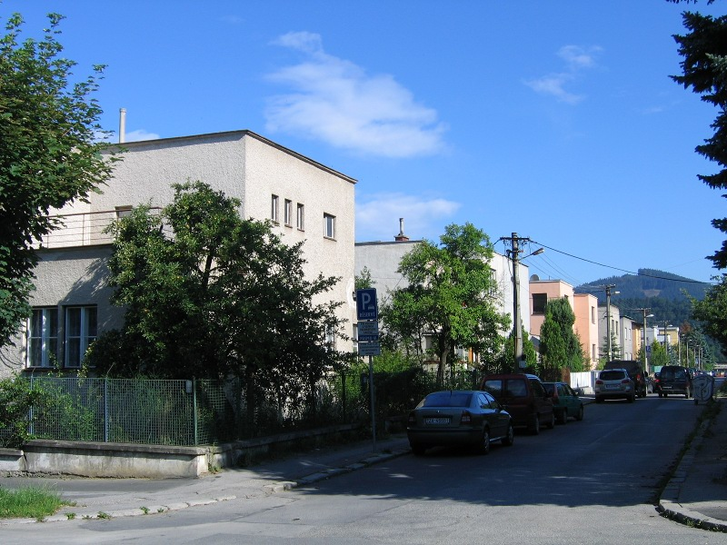 Žilina, street "Na Šefranici"